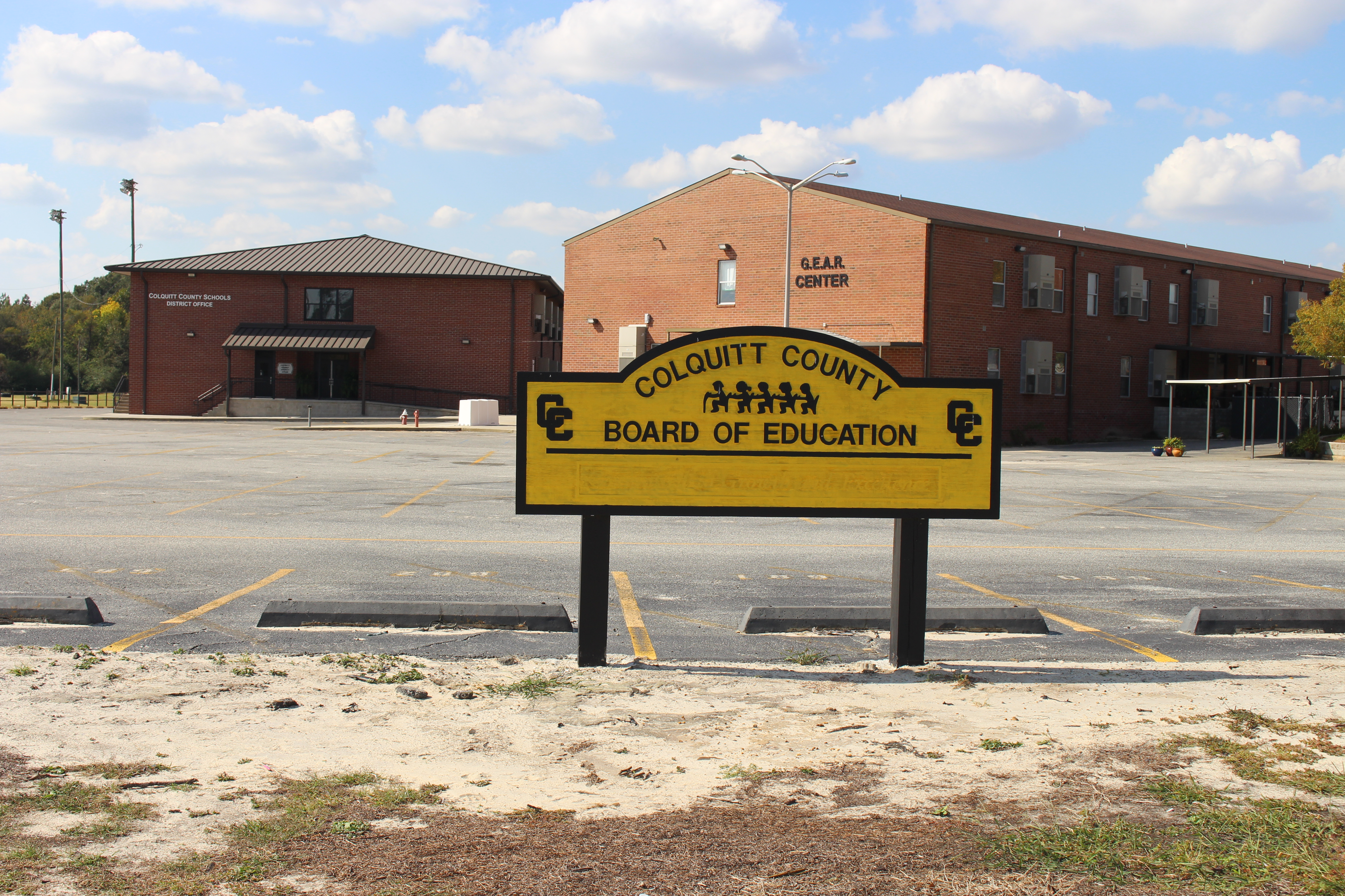 Colquitt County Board of Education, Moultrie, Colquitt County, Georgia